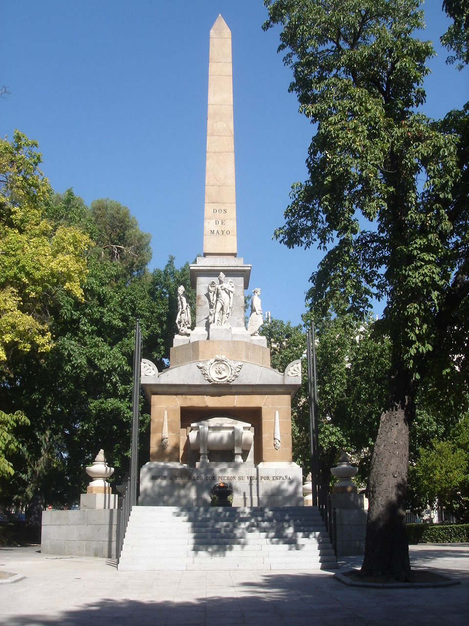 West side of the Monument to the Fallen for Spain at the Plaza de la Lealtad (square) in Madrid (Spain). Inaugurated in 1840 as a Monument to the Heroes of The Second of May and built according to a 1821 design by Isidro González Velázquez (1765–1840). In 1985 it was re-inaugurated as a monument in Honour of all those who gave their lives for Spain (inscription in the base) and an eternal flame was added.